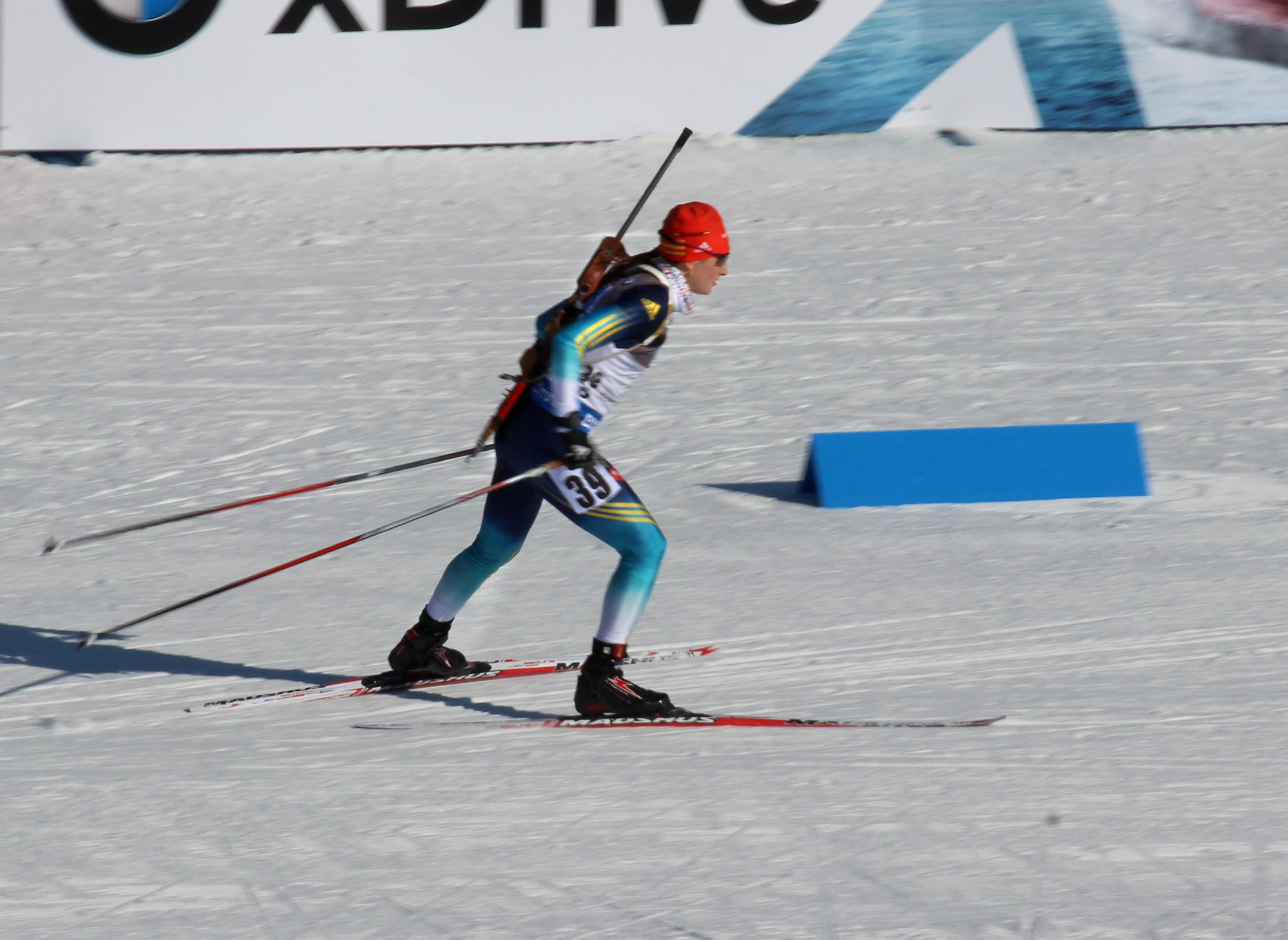 Olga Abramova at Biathlon World Cup 2015 in Nové Město, Czech Republic – sprint women